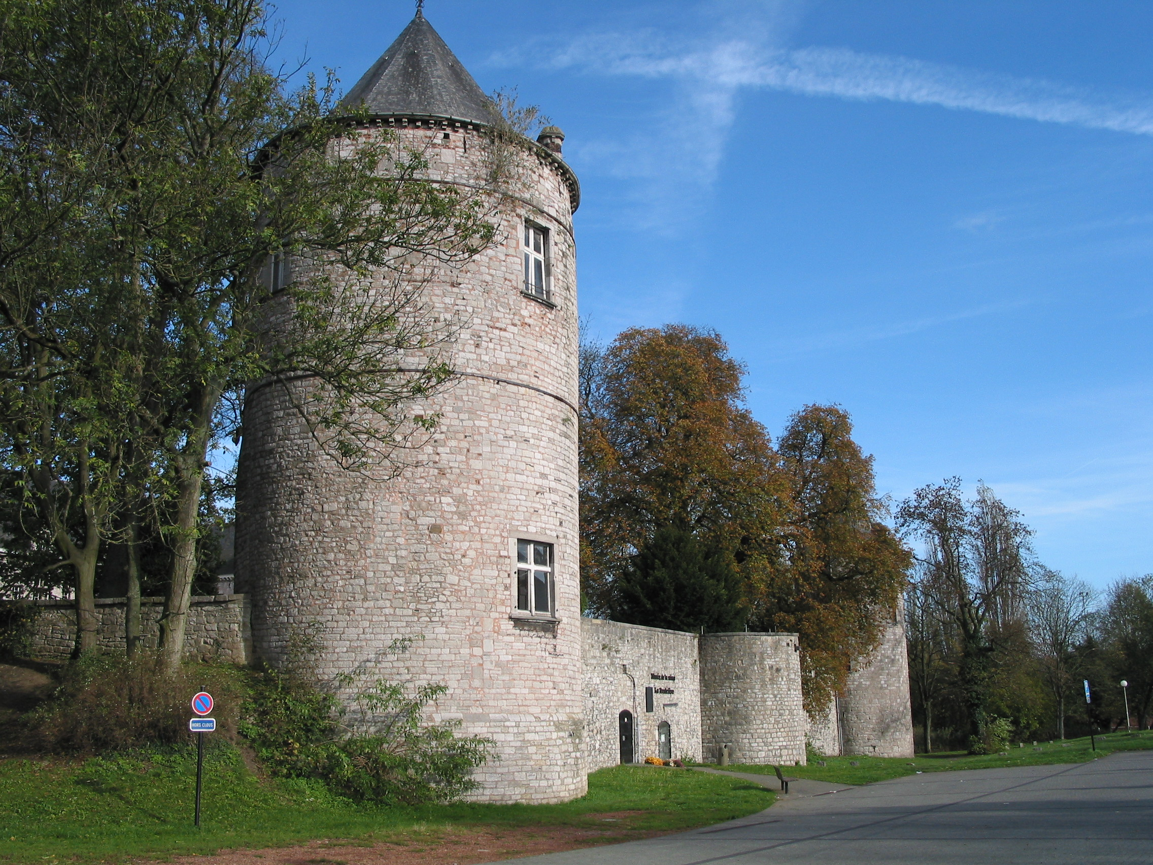 Fontaine-l'Évêque (Belgium), the ancient castle of the lords of Fontaine (XIIIth century).